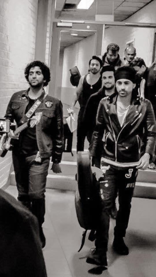 SANAM band moving from greenroom to the stage before the Holland show during Holland-Suriname-Trinidad 2017 Tour